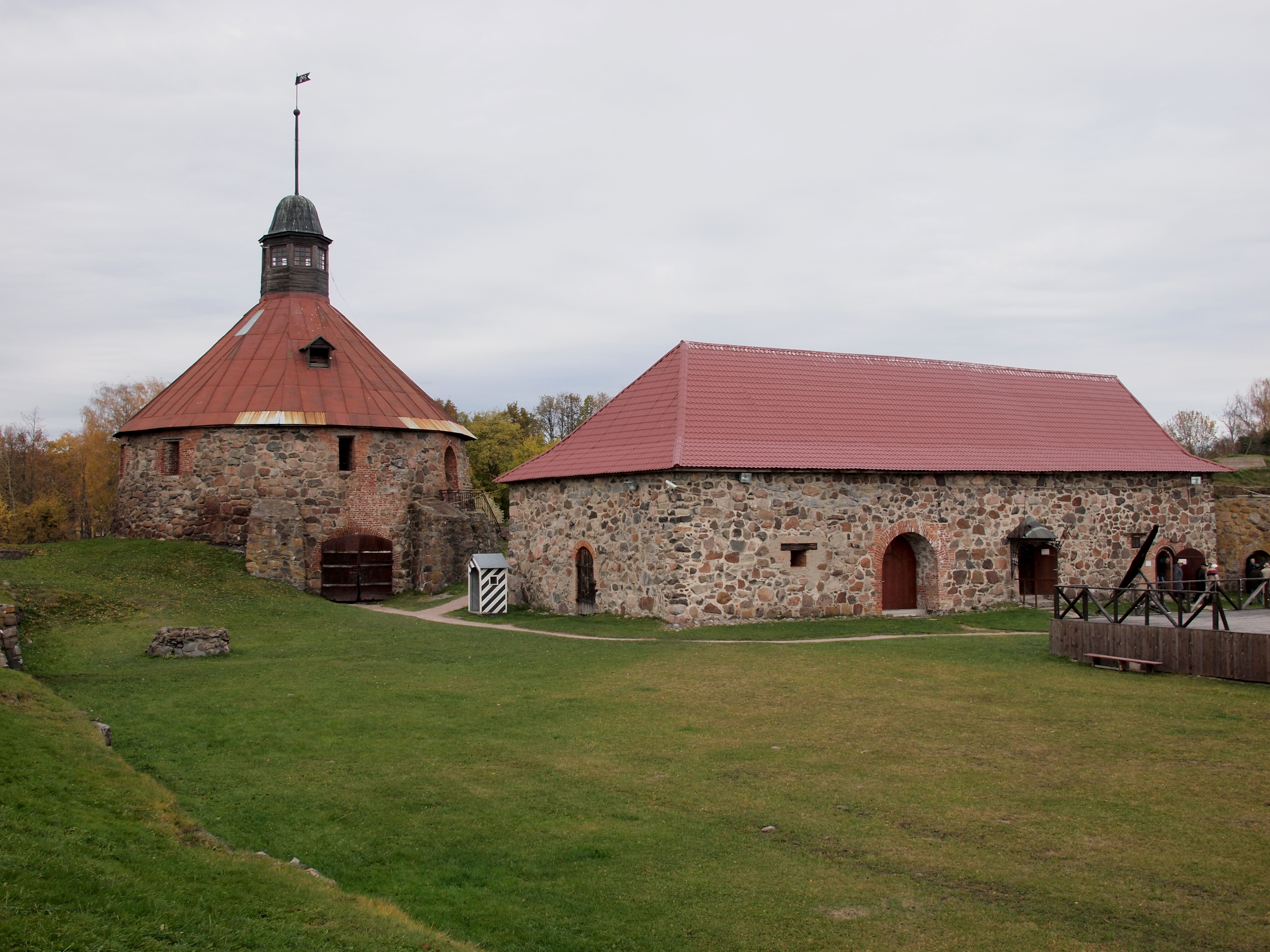 Korela fortress in Priozersk (Käkisalmi)